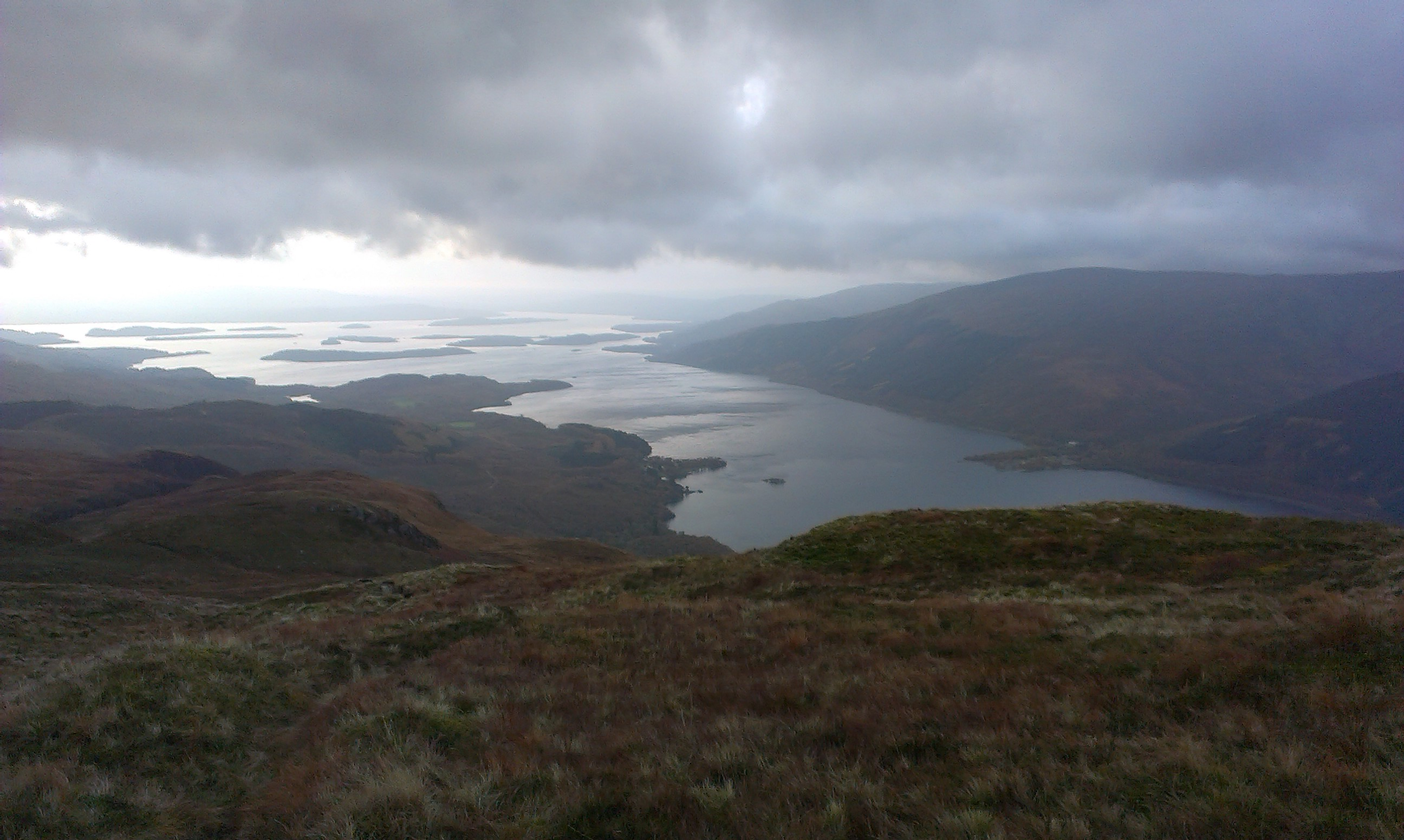 View from the summit of Ben Lomond towards the islands of Loch Lomond.